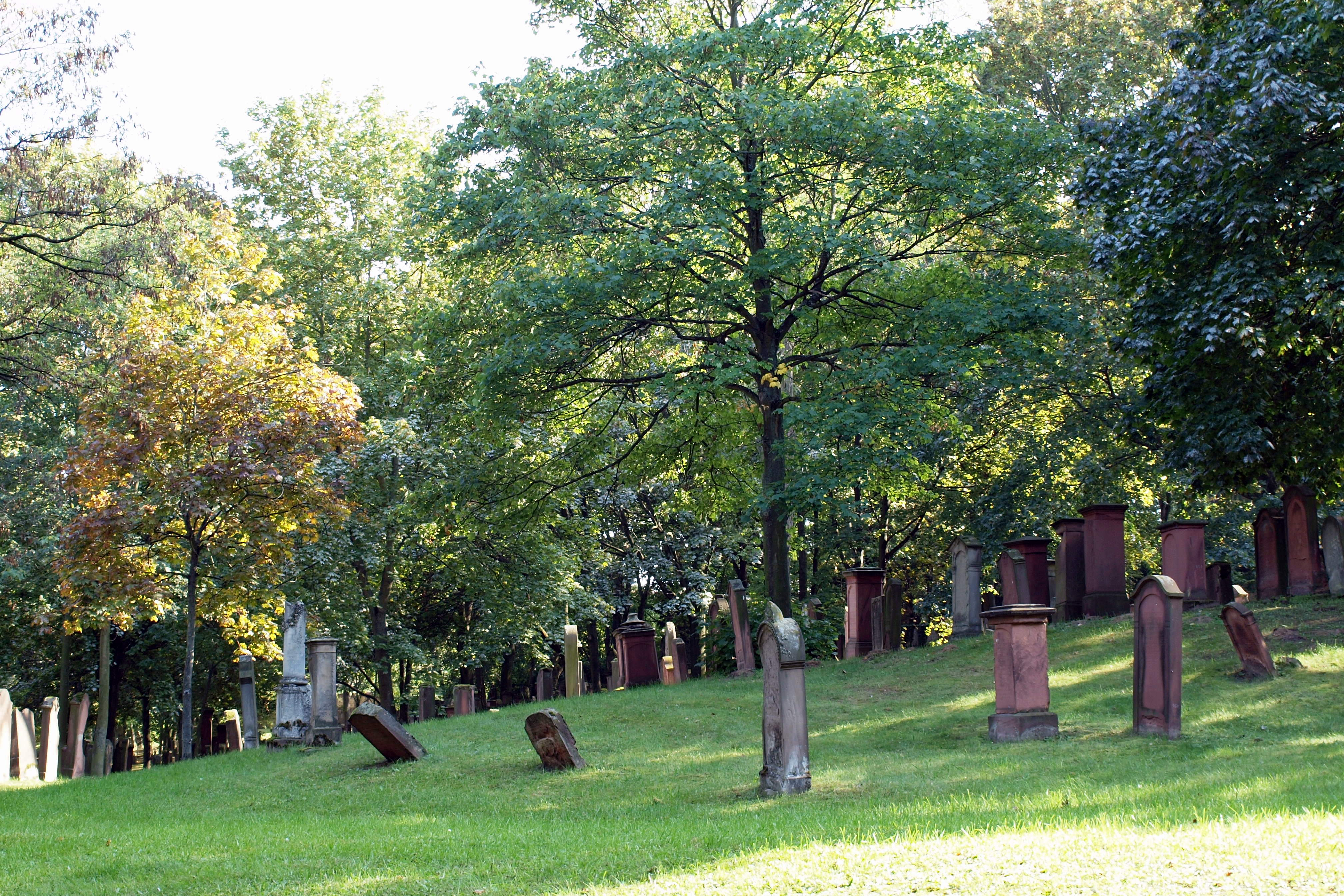 The Judensand, literally „jews sand“ is considered to be among the oldest Jewish cemeteries in Europe